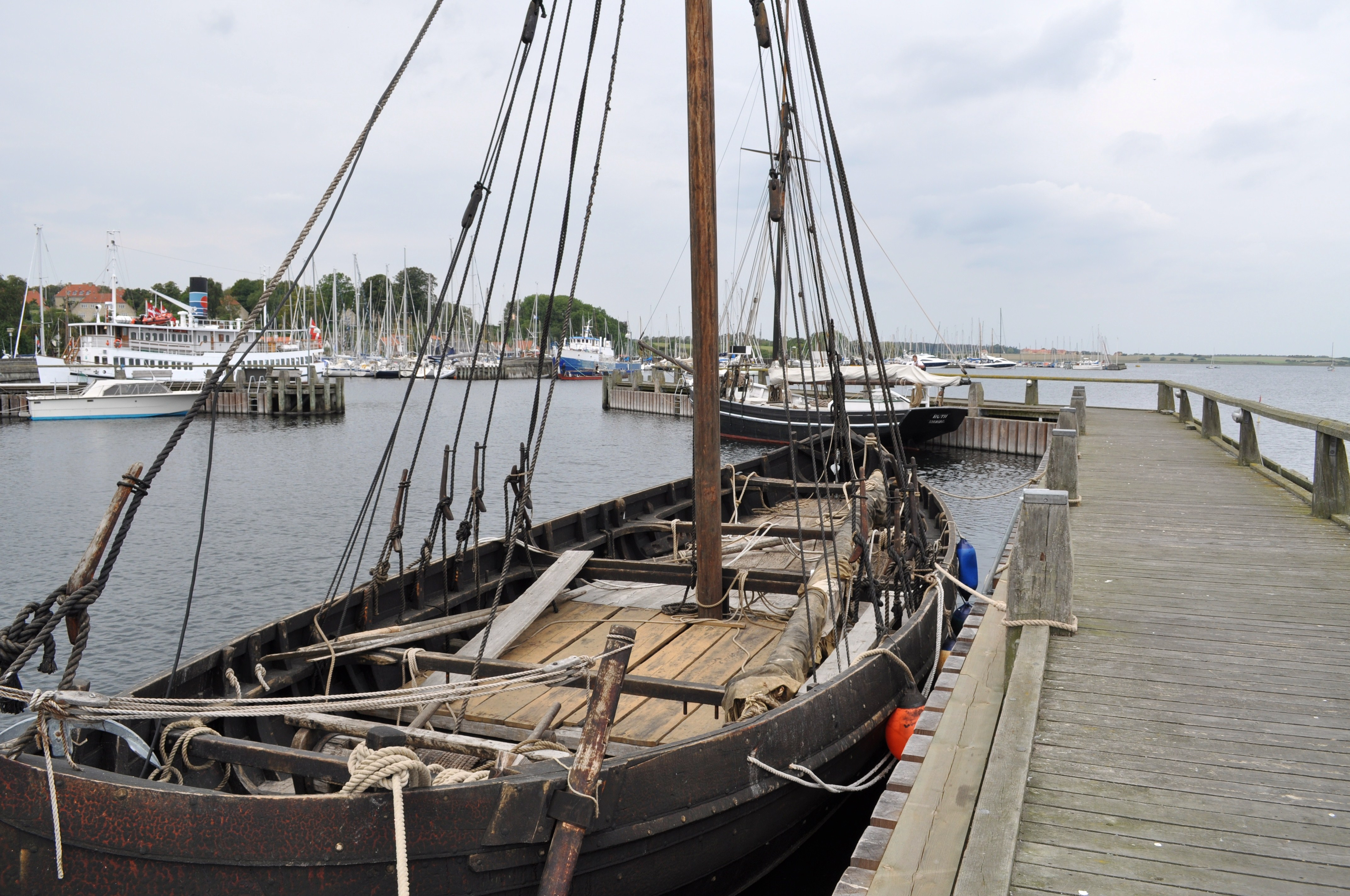 Wiking ship museum